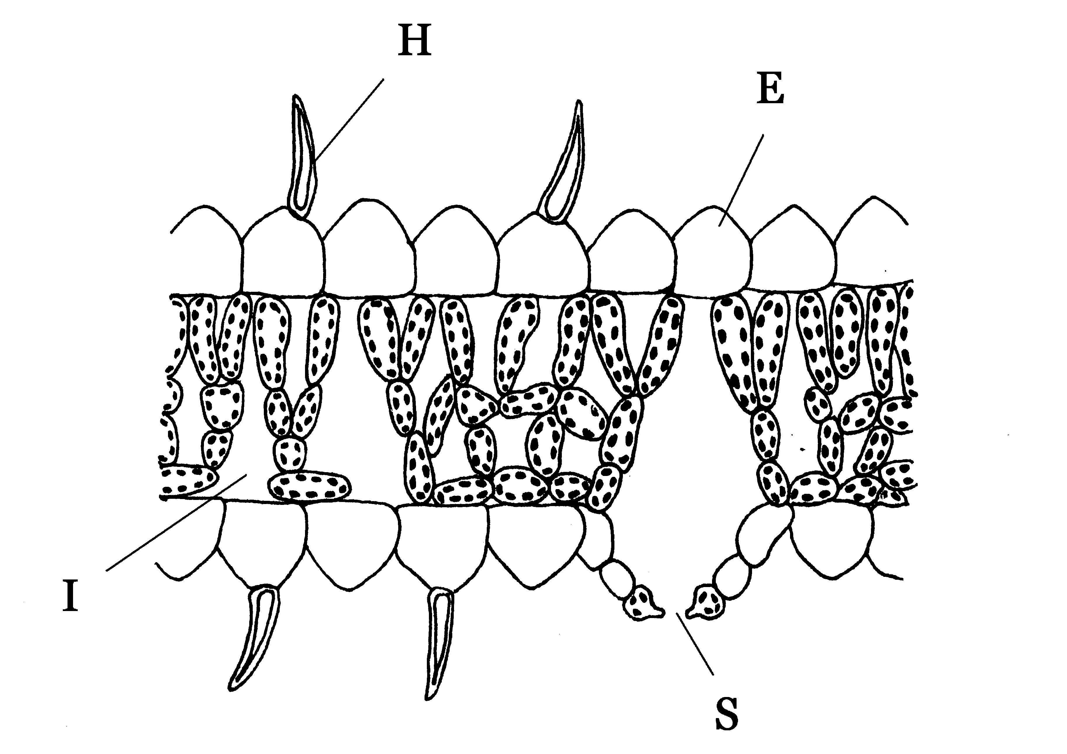 Cross section through a hygrophyte leave / Querschnitt durch ein Hygrophyten-Blatt. Key / Legende: E - vaulted epidermis / gewölbte Epidermis S - external stoma / herausgehobene Spaltöffnung I - spacious intercellulars / große Interzellulare H - living epidermal hairs / lebende epidermale Blatthaare